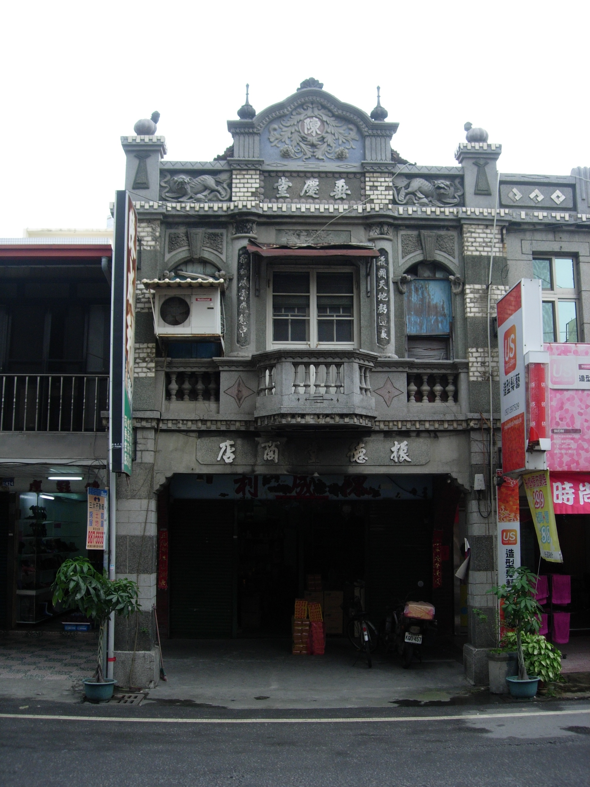 Tienchung Old Street Building